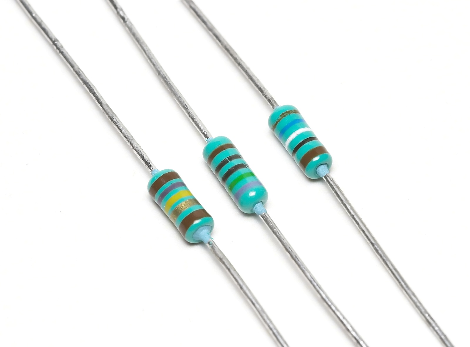 3 Resistors.